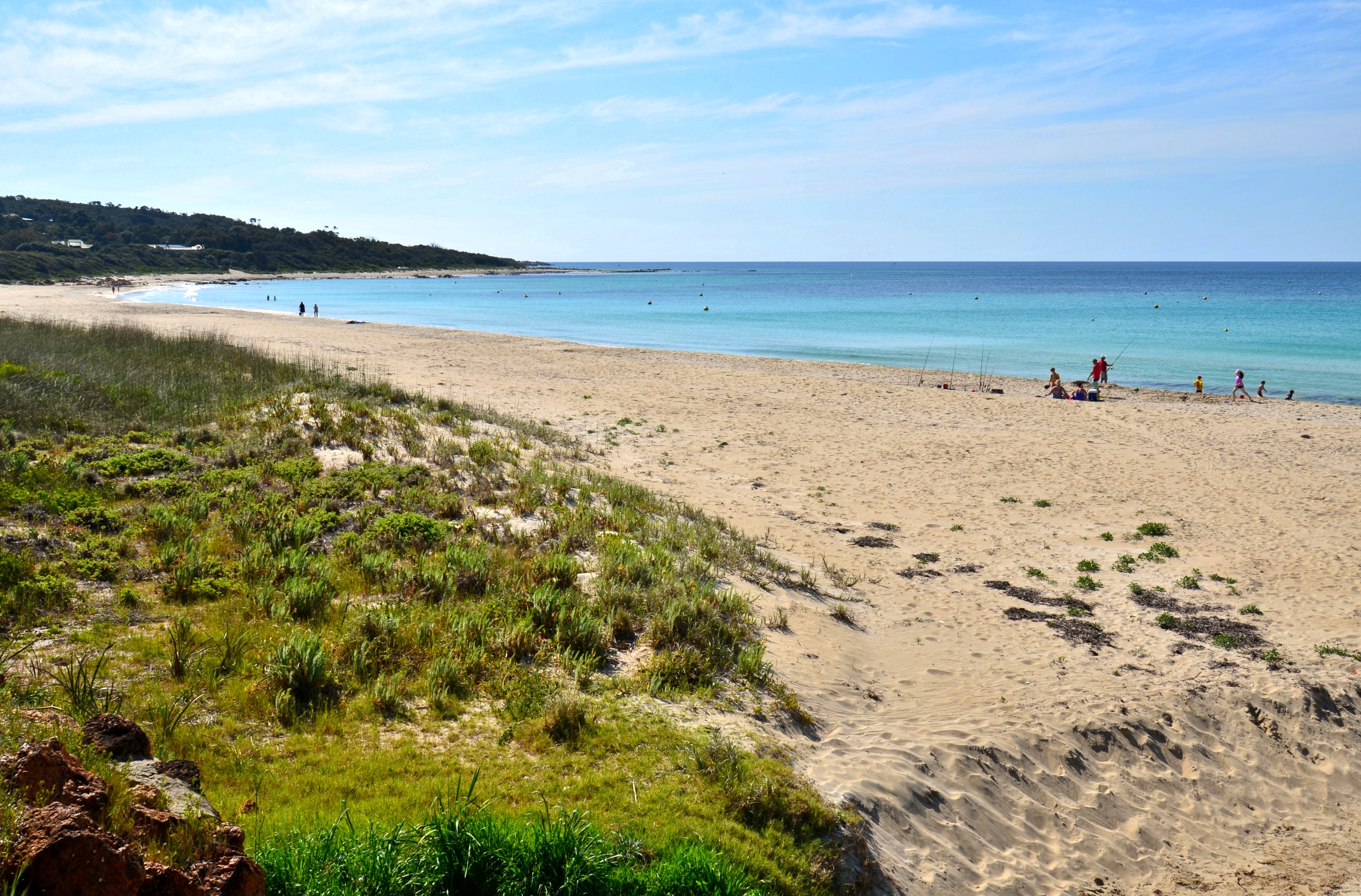 View of Eagle Bay, part of Geographe Bay, Western Australia.